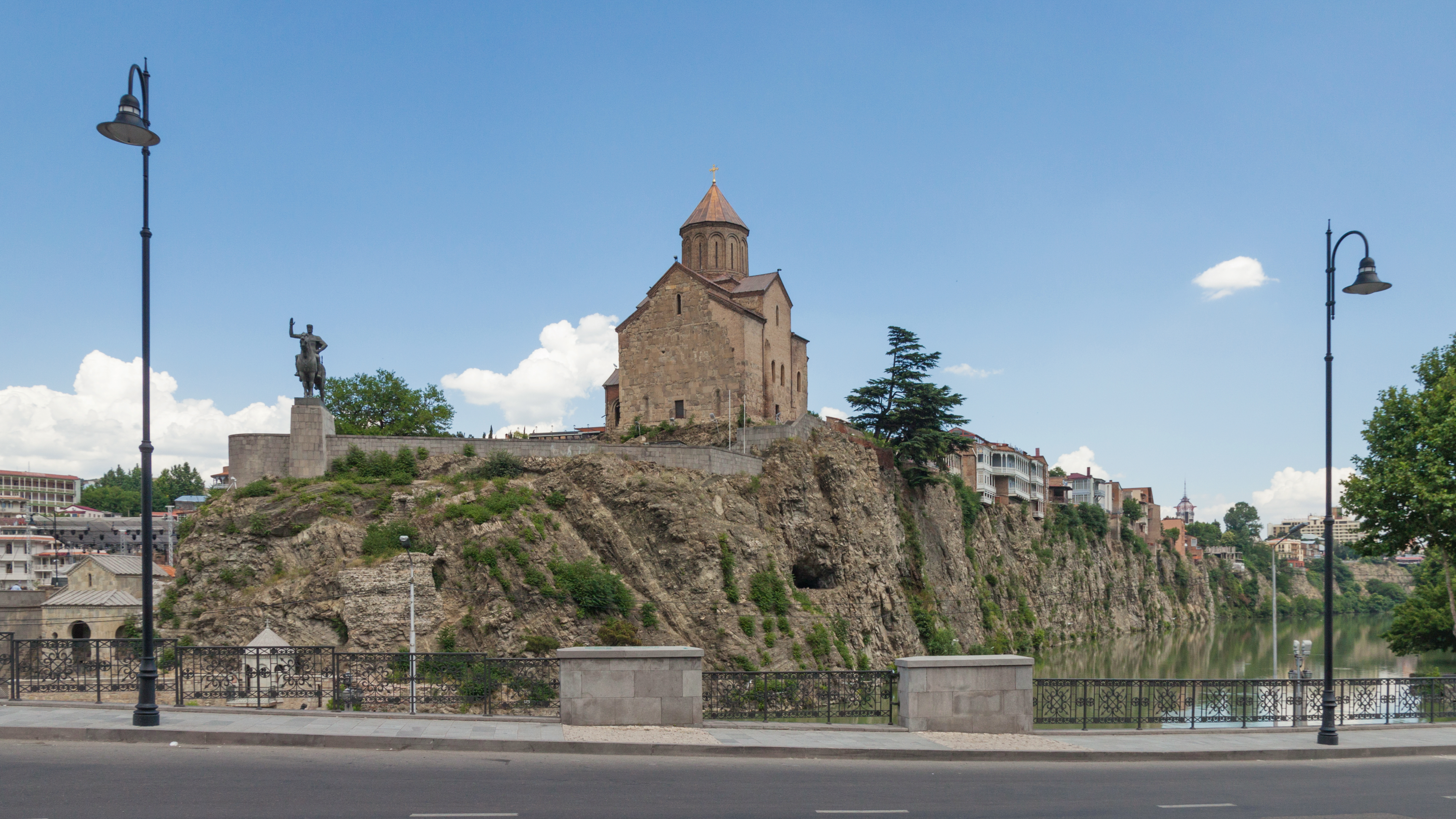 Metekhi church. Tbilisi, Georgia.